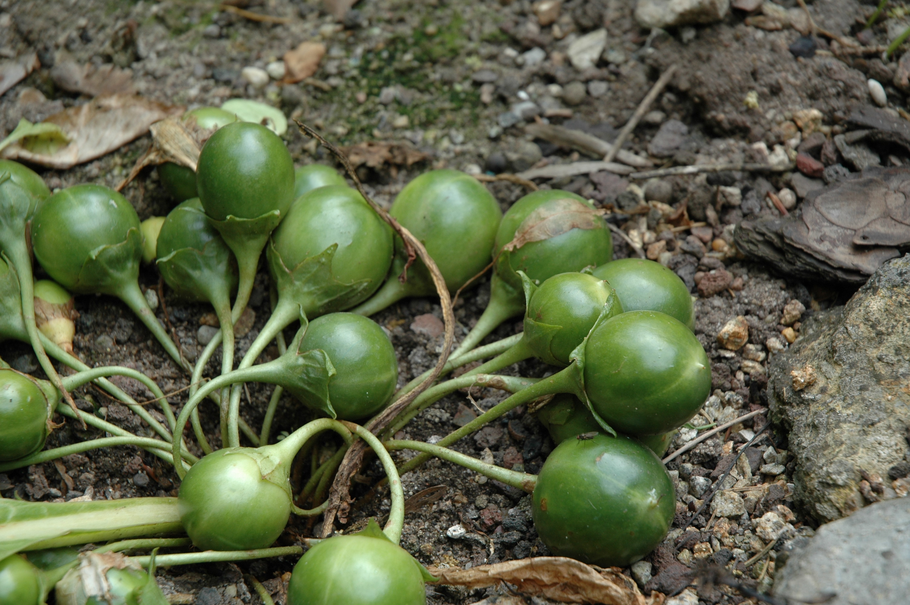 Fruits of Mandragora officinarum at Erlangen Botanical Garden, Germany